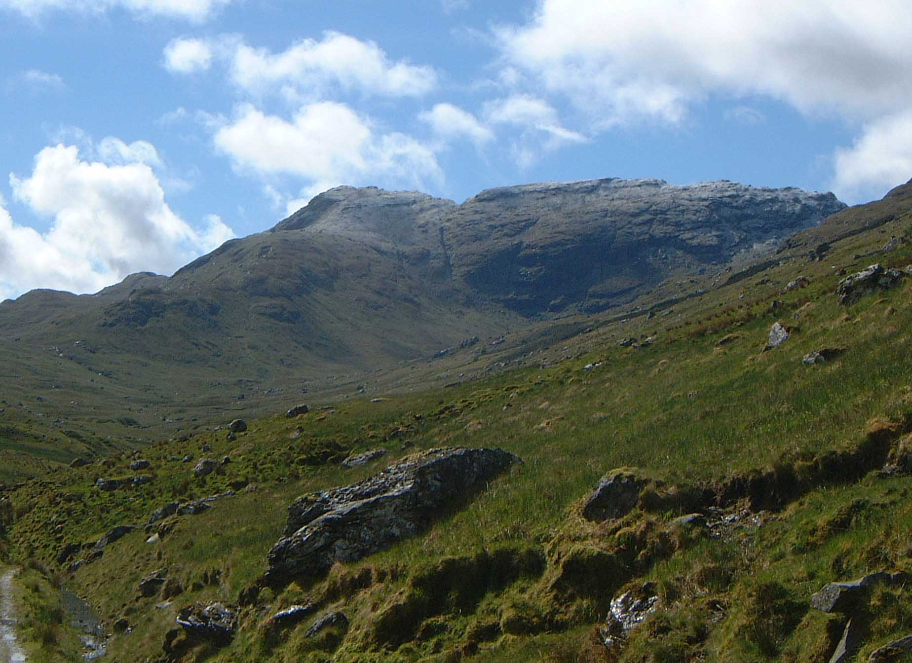 Personal picture taken by Mick Knapton